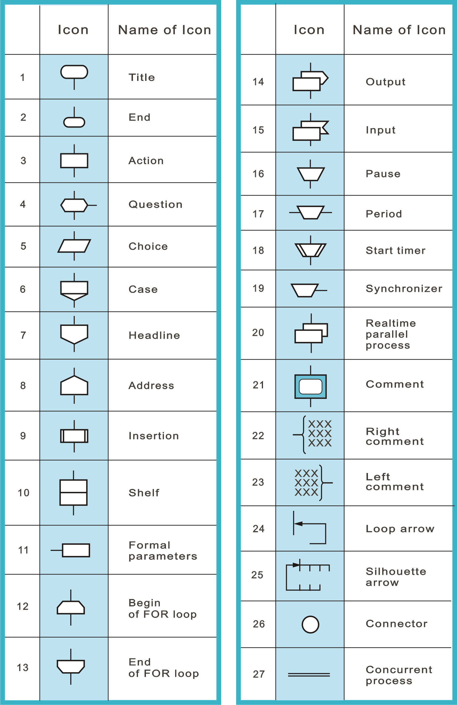 The icons of the visual programming language DRAKON. The graphic letters of the DRAKON language are called icons.